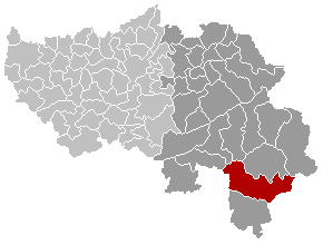 Map, municipality belgium Sankt-Vith